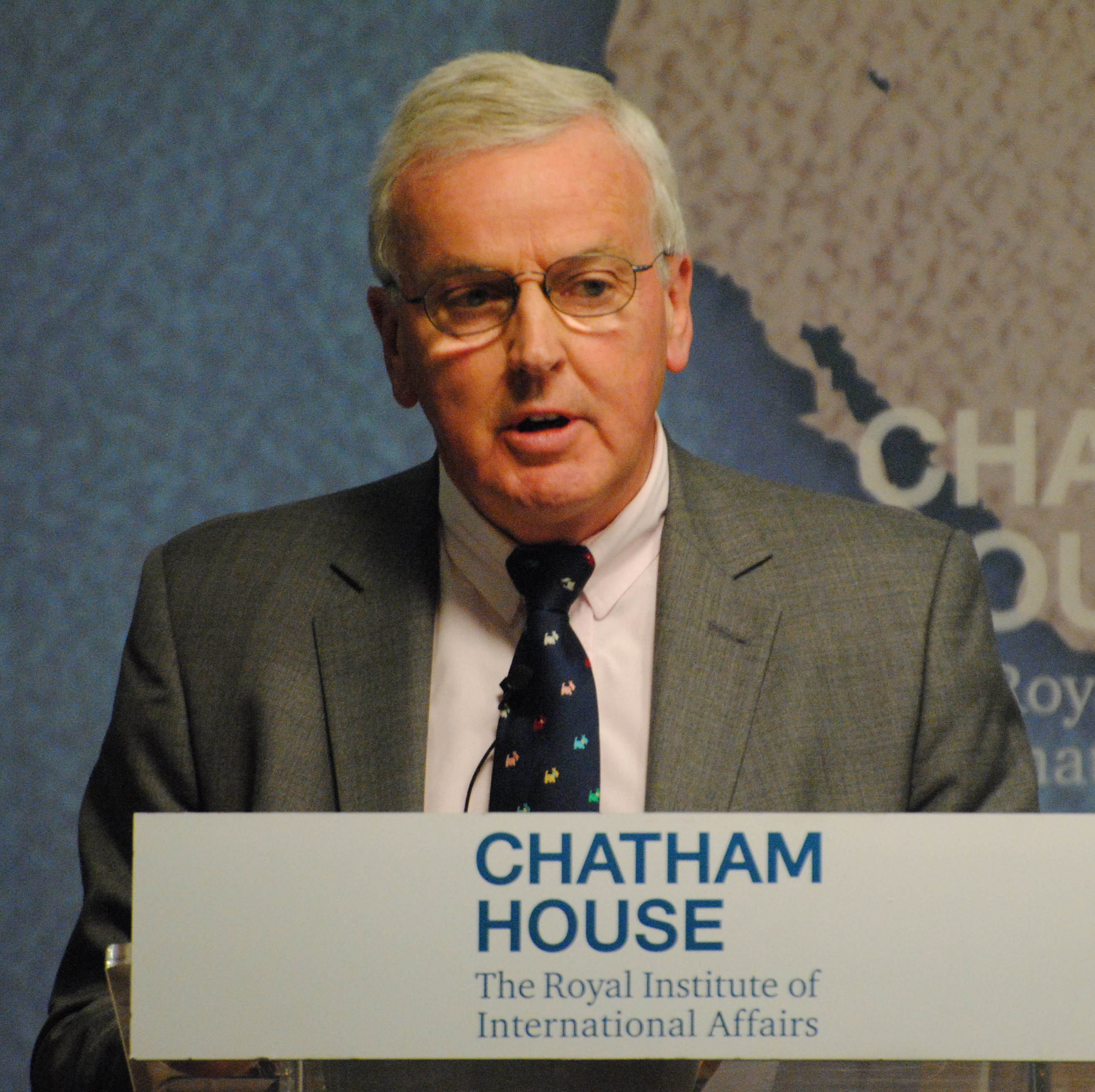 After the Vote: Britain’s Future in Europe, 4 July 2016, cht.hm/29m8A8a